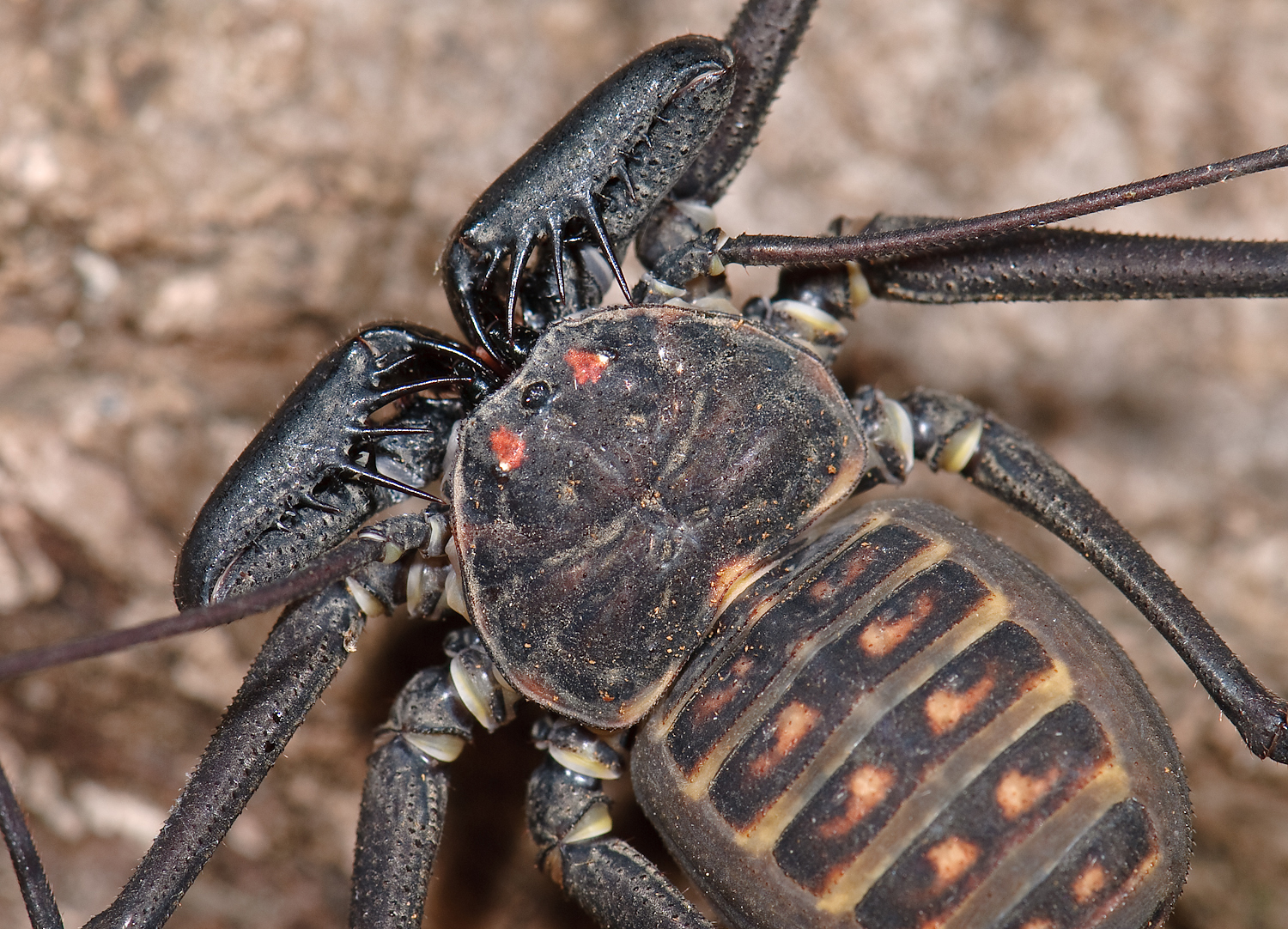 spination of pedipalpal tibia consistent with species identification see Quintero 1981, fig 91: common at night along roadcut